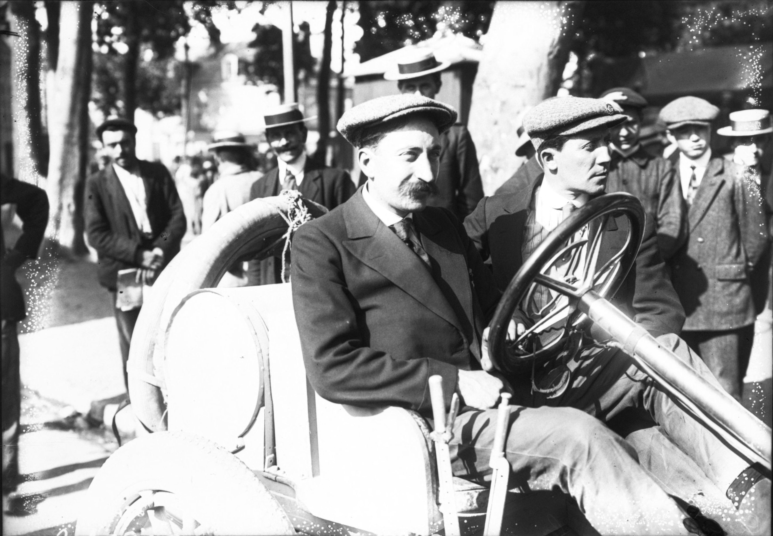 Maurice Fournier at the 1911 Grand Prix de France at Le Mans.